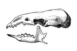 Skull drawing of type specimen S. bendirii palmeri